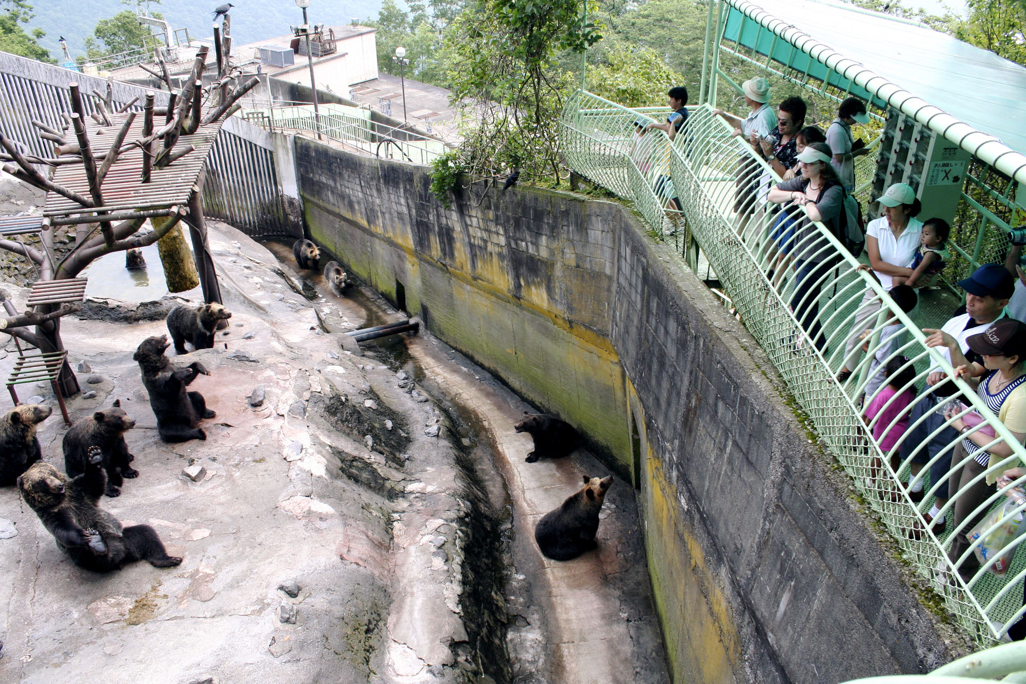 Taken in Noboribetsu, Hokkaidō